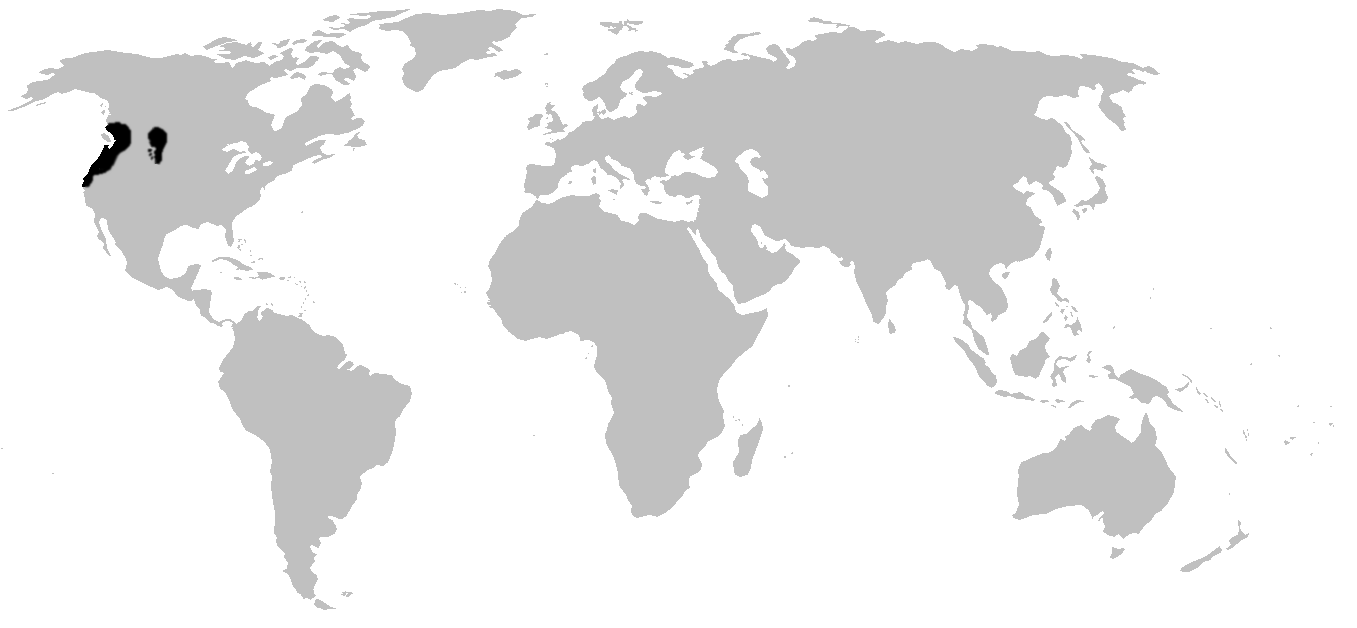 Map of range of frog Ascaphus, Ascaphidae family, based on range by Metter (1968).